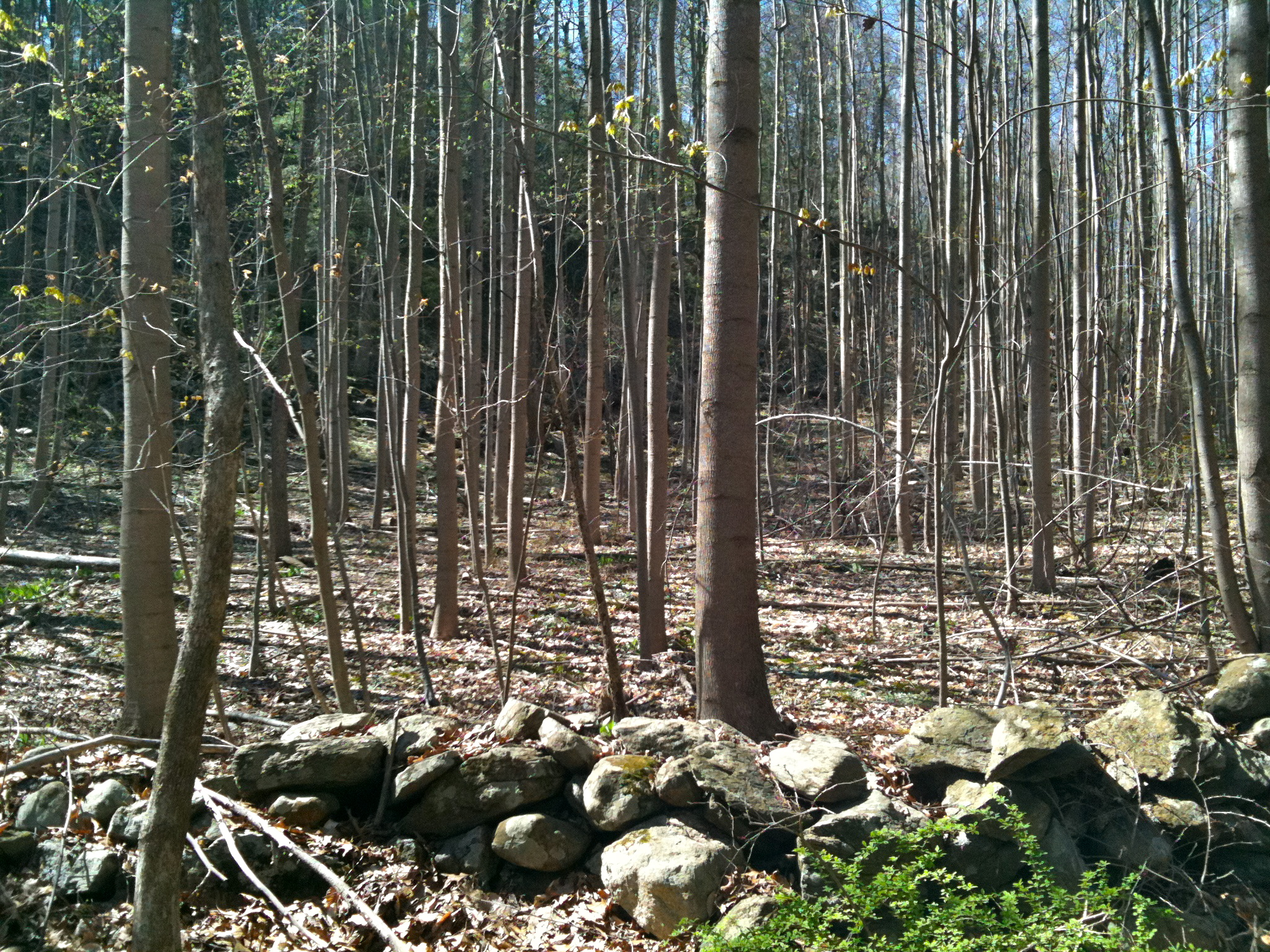 Lillinonah Trail. Blue-Blazed CFPA foot path which circles the upper Paugussett State Forest (and Lake Lillinonah/Housatonic River) in Newtown, CT. New stand of trees. Lillinonah Trail. Blue-Blazed CFPA foot path which circles the upper Paugussett State Forest (and Lake Lillinonah/Housatonic River) in Newtown, CT.